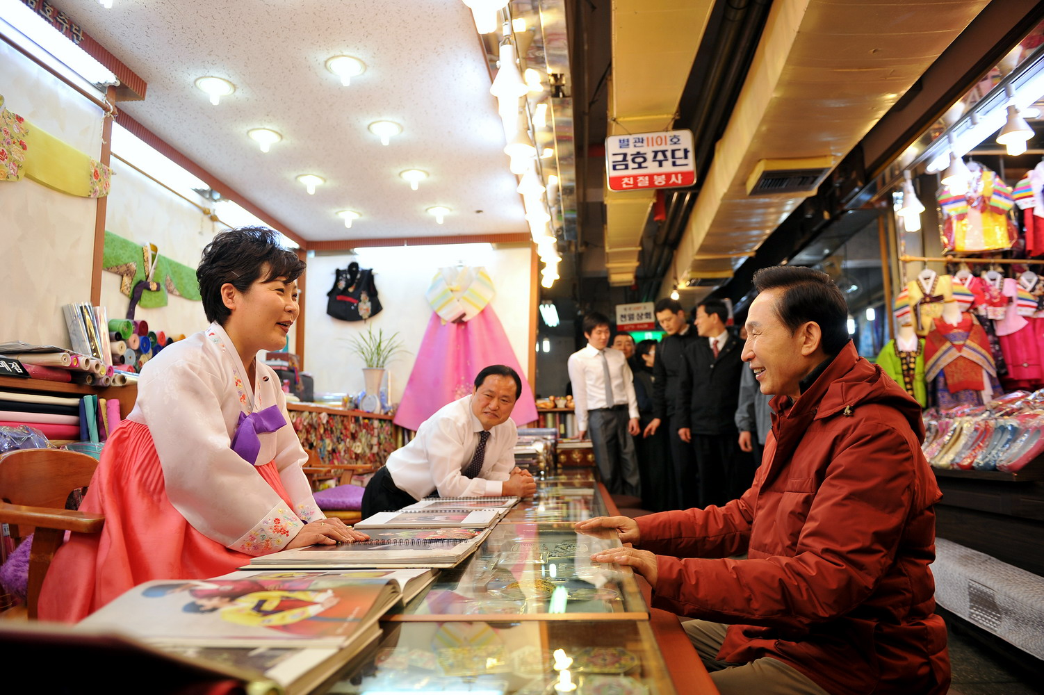 President Lee visiting a traditional market during the Lunar New Year holiday.